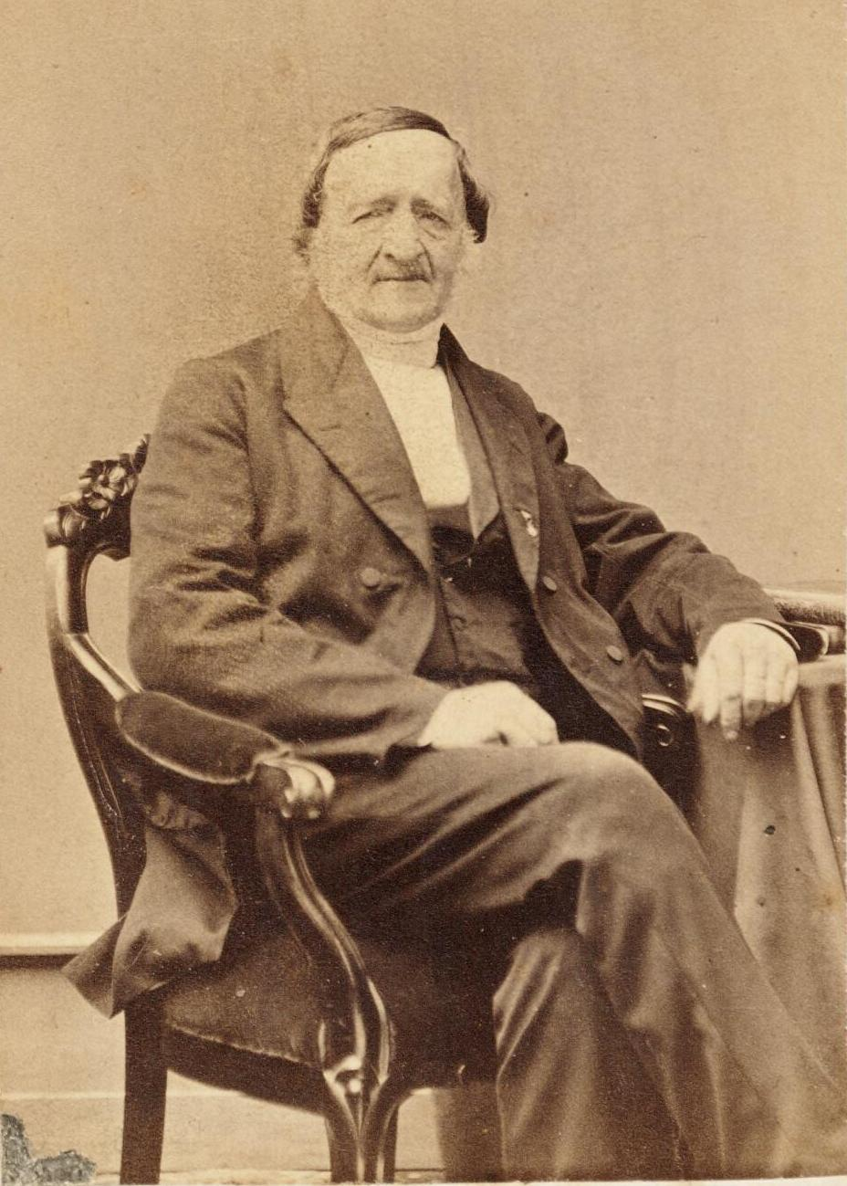 Portrait of Anthonius Modderman (1793-1871).